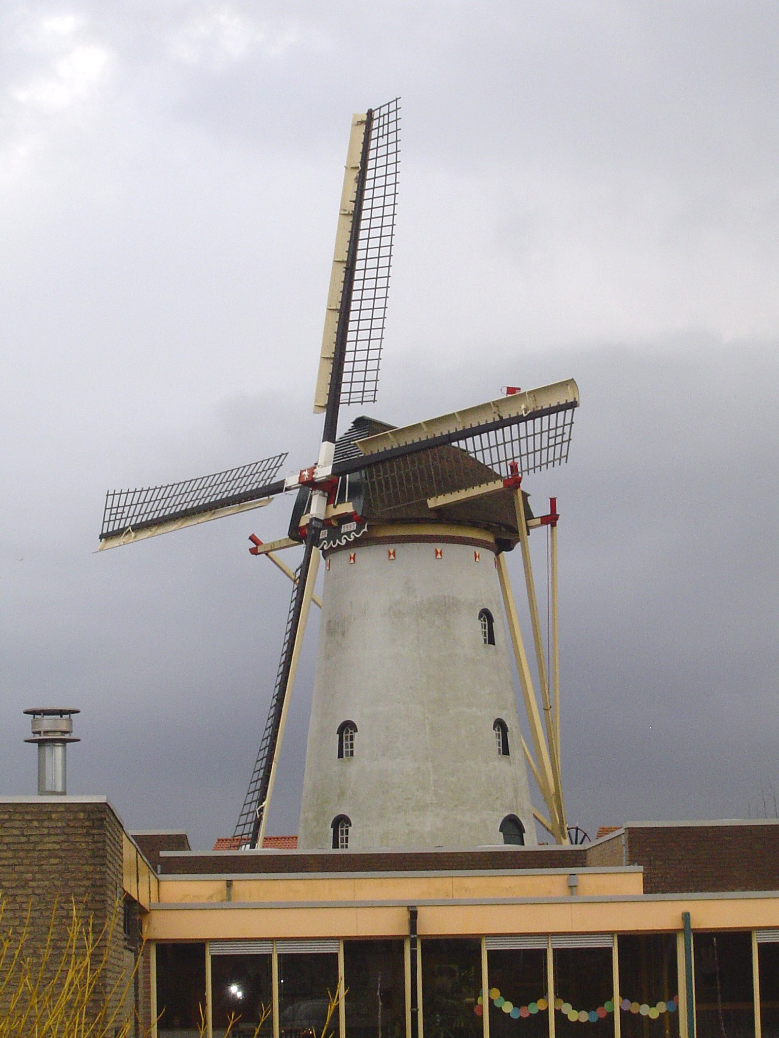 Windmill Lobith, The Netherlands